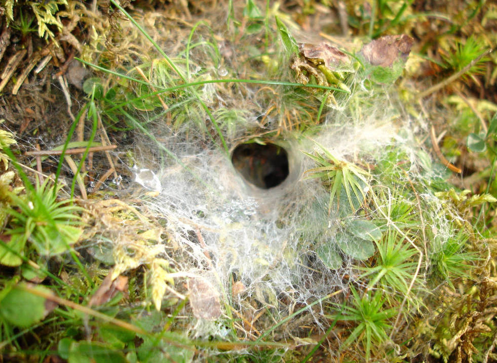 Funneled spider net